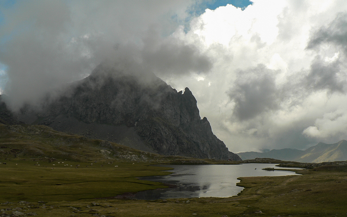 Ibones de Anayet This is a photography of a Site of Community Importance in Spain with the ID: ES2410002. Natura2000 entry, EEA entry